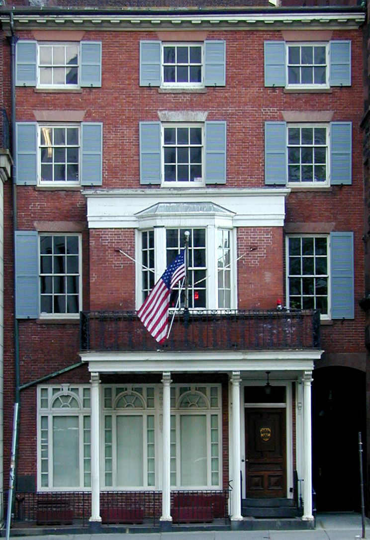 Photo taken of the Boston Bar Association main facade.